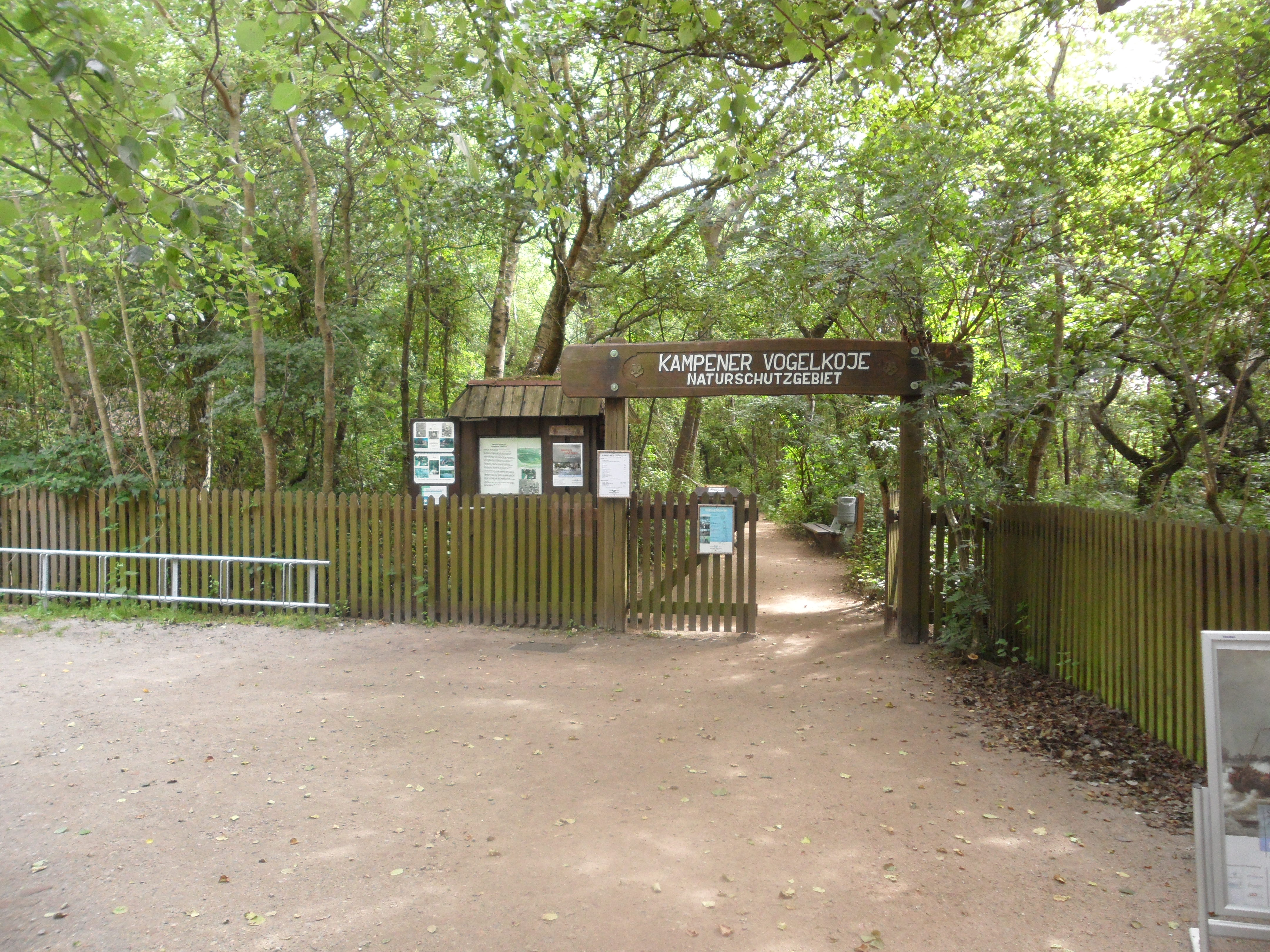 Main entrance to Kapener Vogelkoje (Sylt)